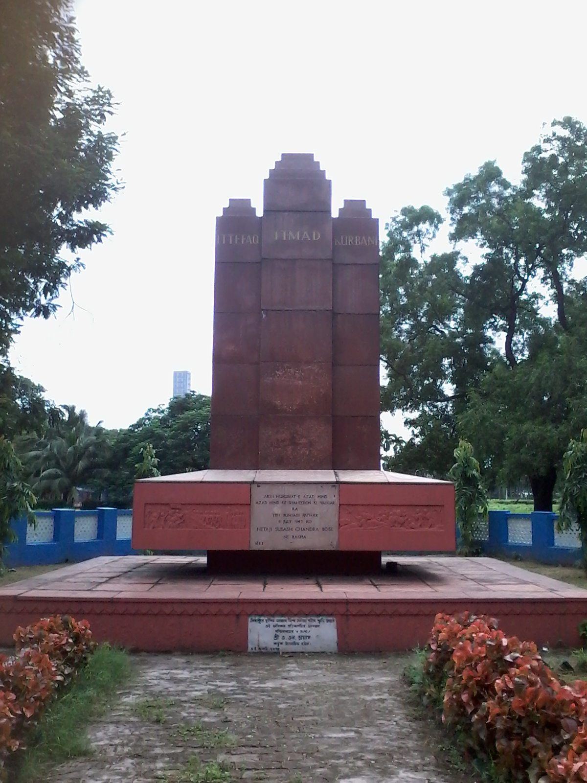 Monument of Indian National Army Martyrs at Kolkata Moidan